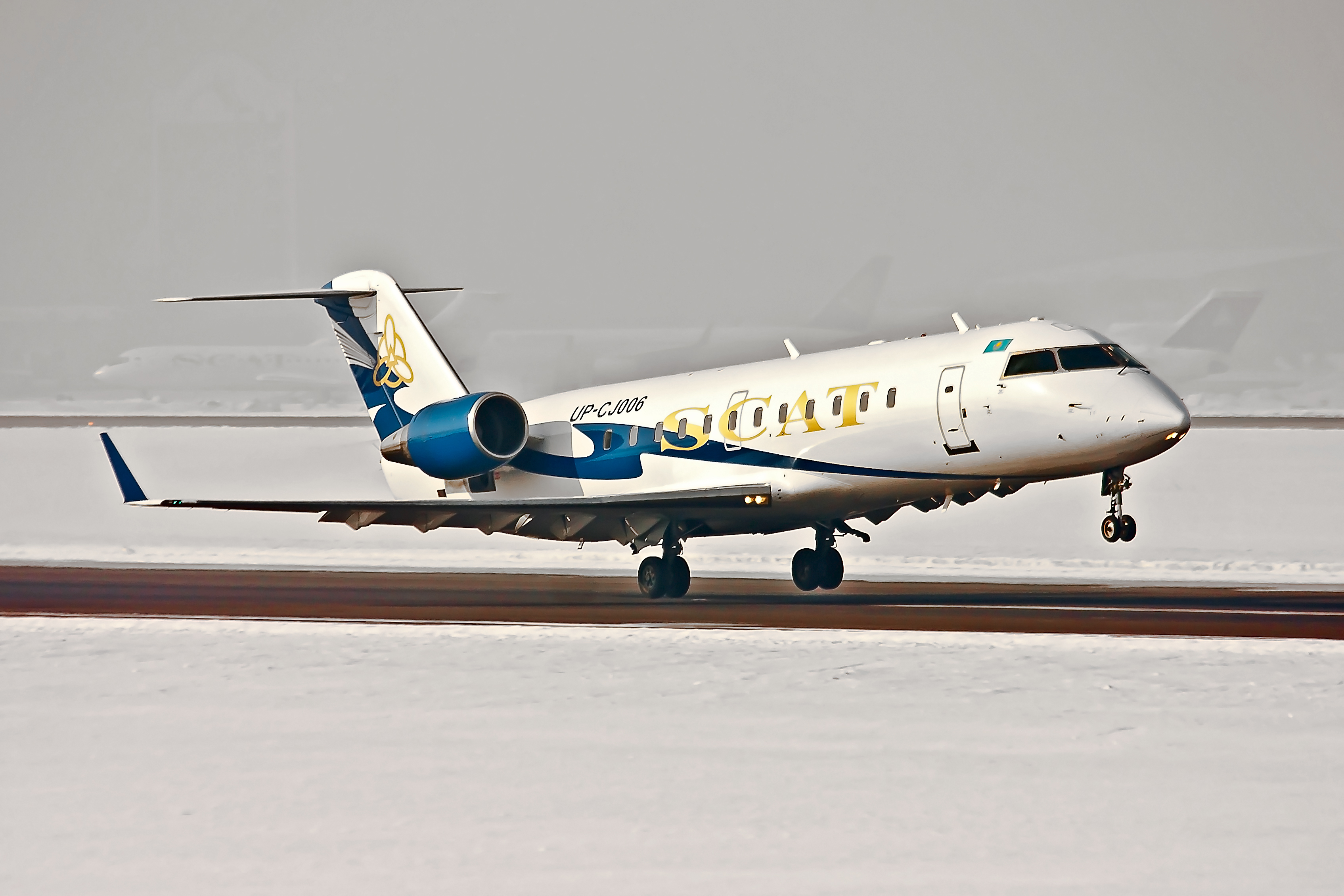 Bombardier CRJ-200 (registration UP-CJ006, operator SCAT Air) at Almaty International Airport, January 7, 2013